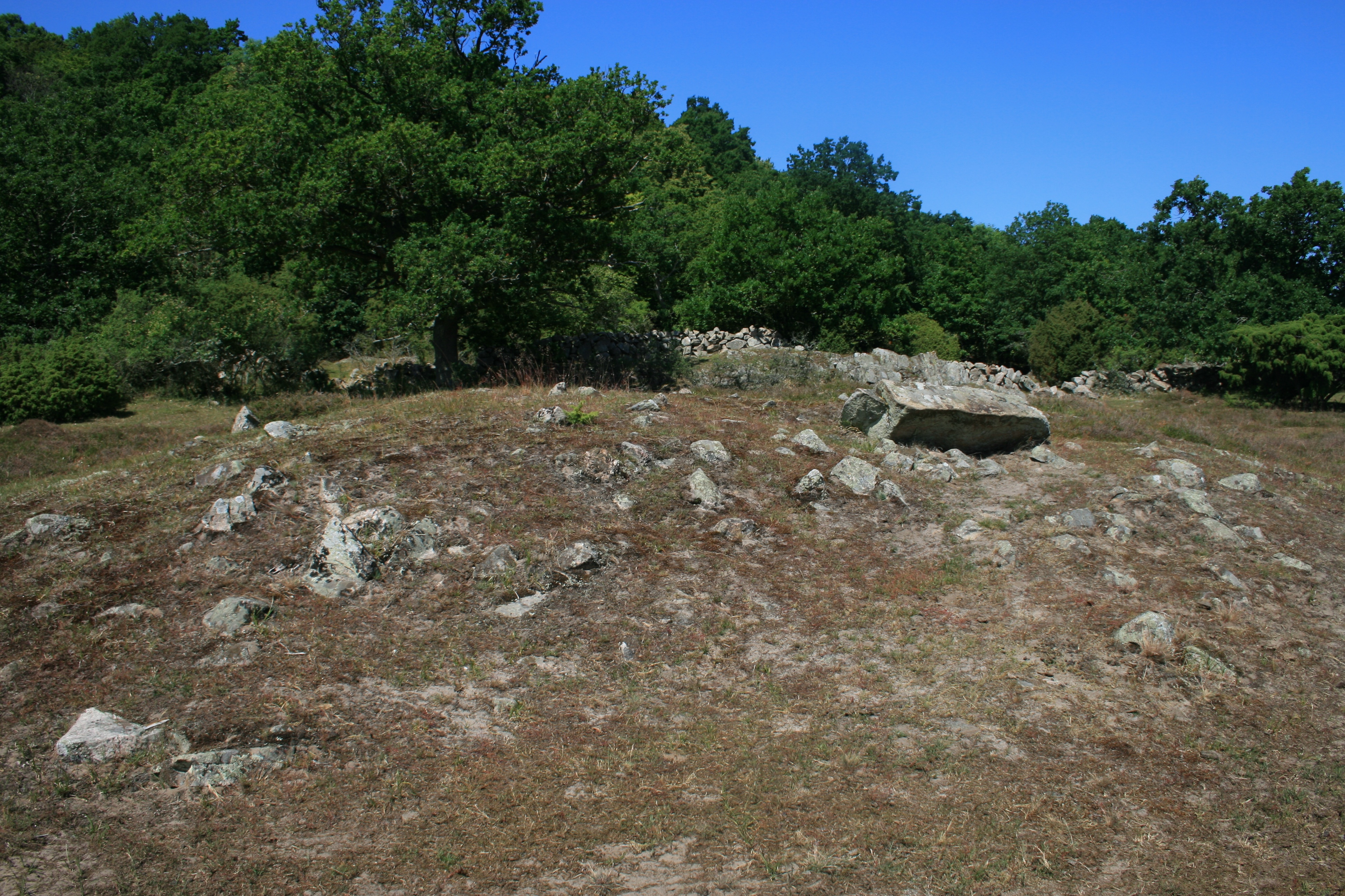 Stone age cist in Stenshuvud national park